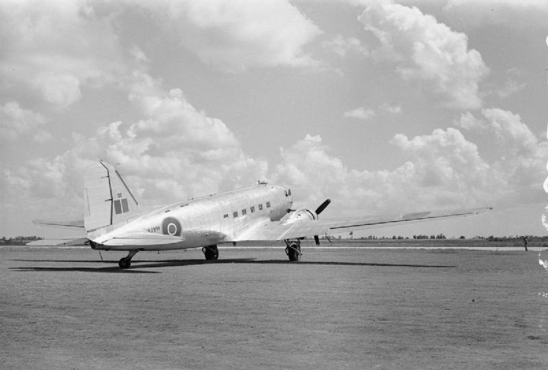 Royal Air Force- Italy, the Balkans and South-east Europe, 1942-1945. Douglas Dakota Mark IV, KJ994, of the SHAEF Communications Squadron, and the personal aircraft of Air Marshal Sir Arthur Tedder, Deputy Supreme Commander, Allied Expeditionary Forces, parked at Campoformido airfield, Udine, Italy.